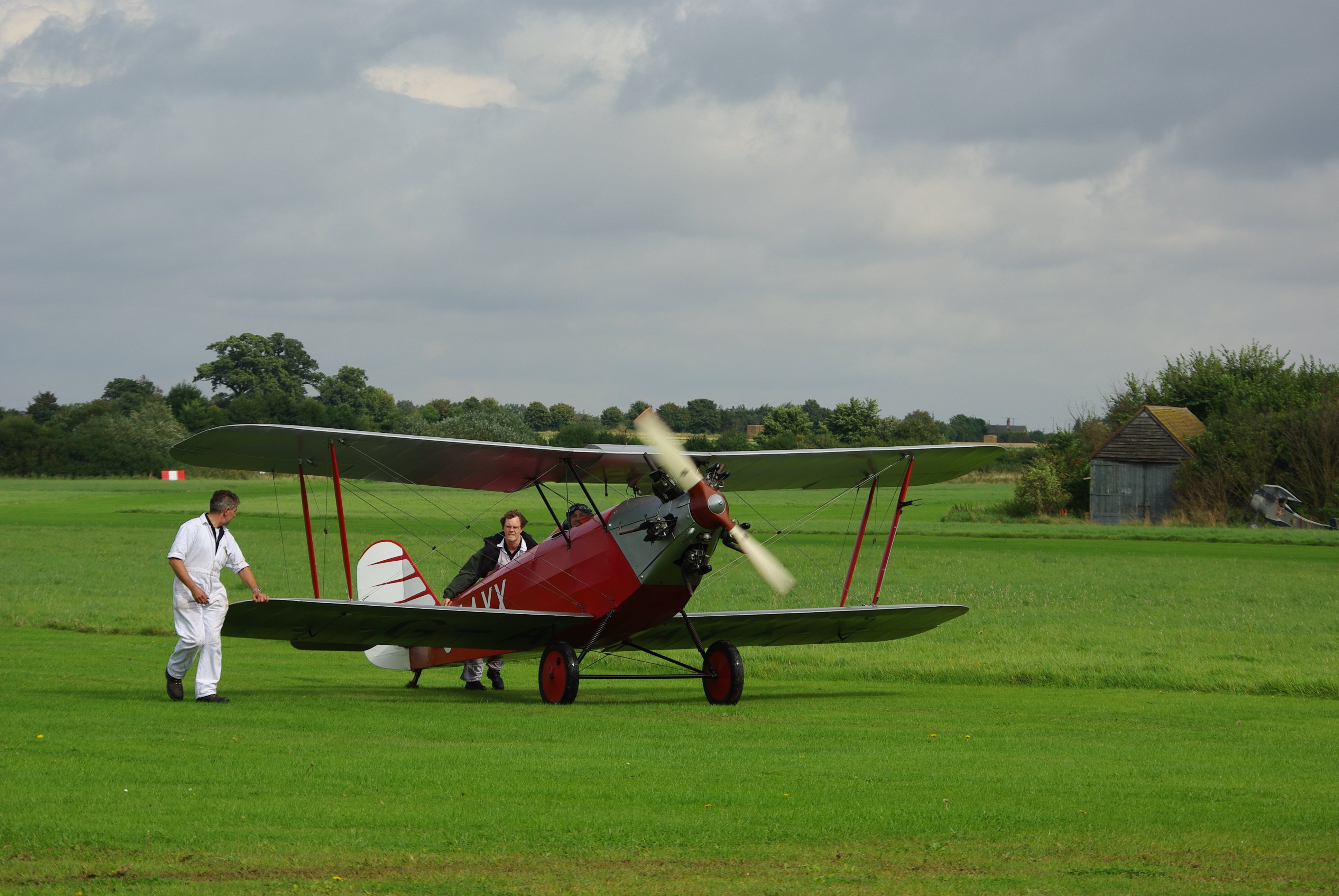 Shuttleworth's Martlet at Old Warden September 2008